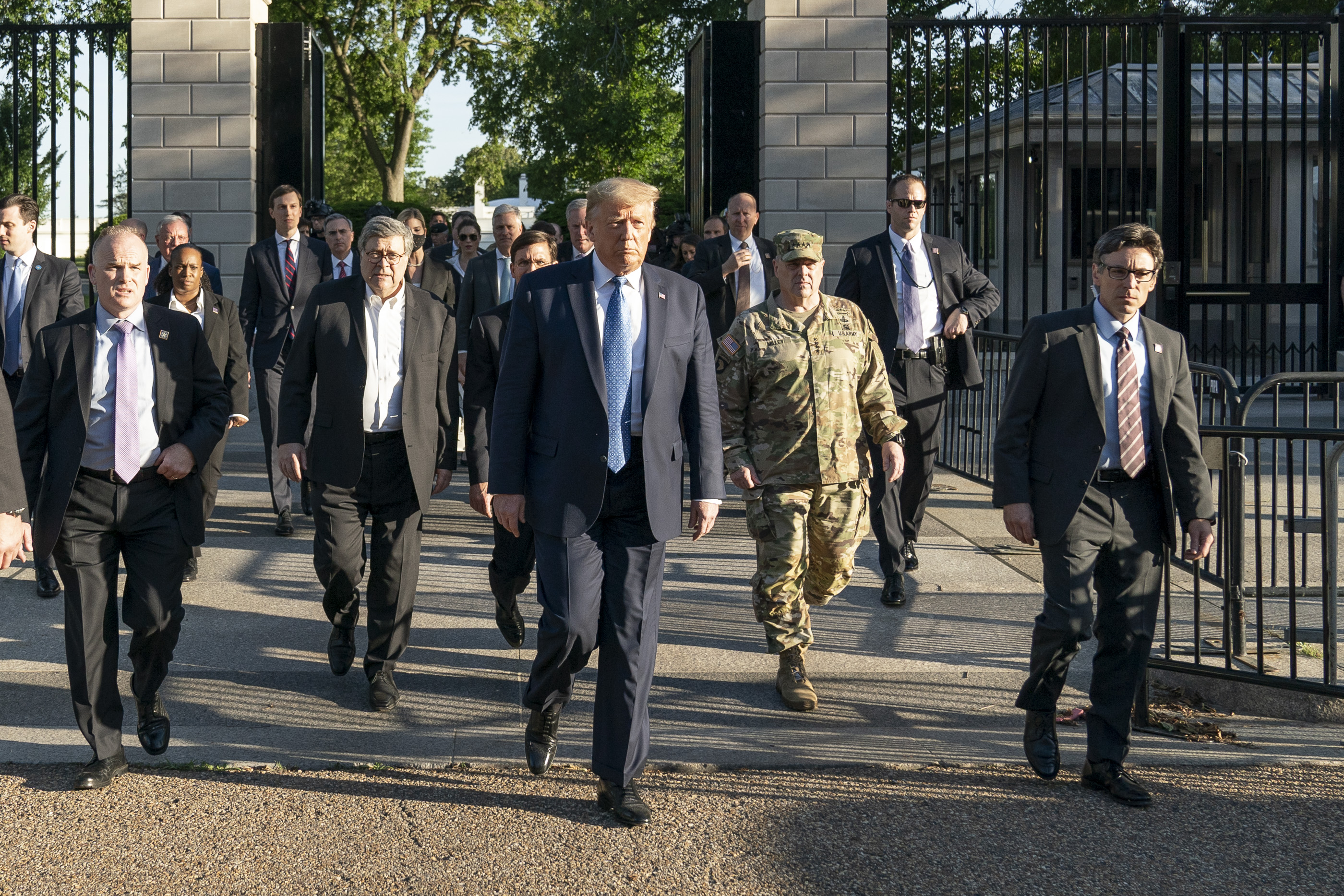 President Donald J. Trump walks from the White House Monday evening, June 1, 2020, to St. John’s Episcopal Church, known as the church of Presidents’s, that was damaged by fire during demonstrations in nearby LaFayette Square Sunday evening. (Official White House Photo by Shealah Craighead)